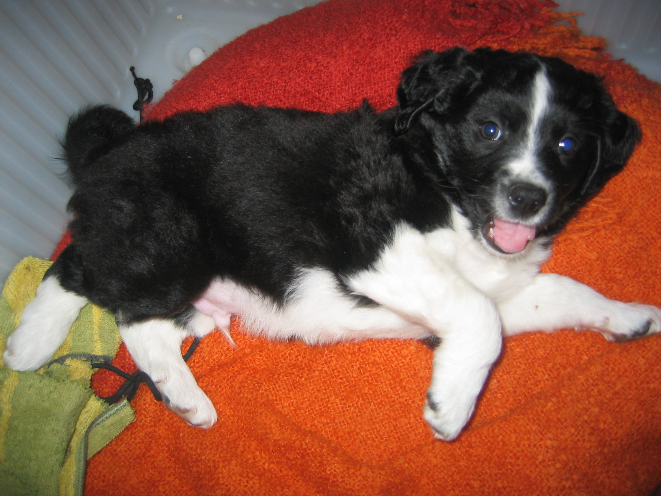 Bubby as a 12 week old puppy